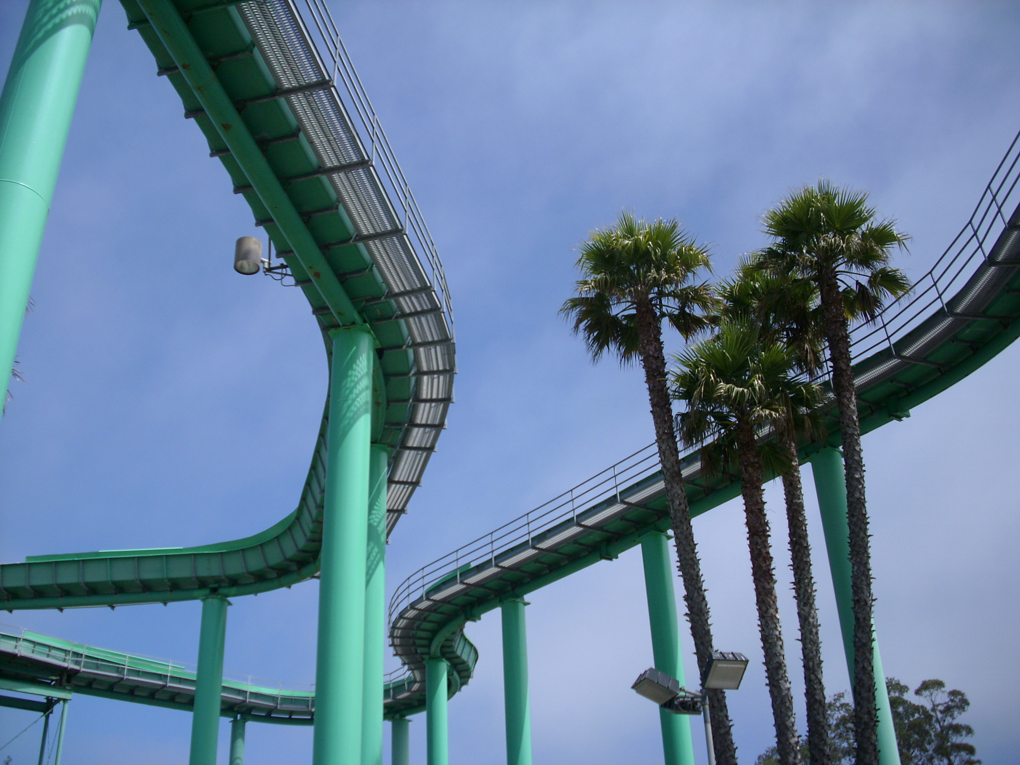 Bottom view of the Logger's Revenge ride at the Santa Cruz Beach Boardwalk